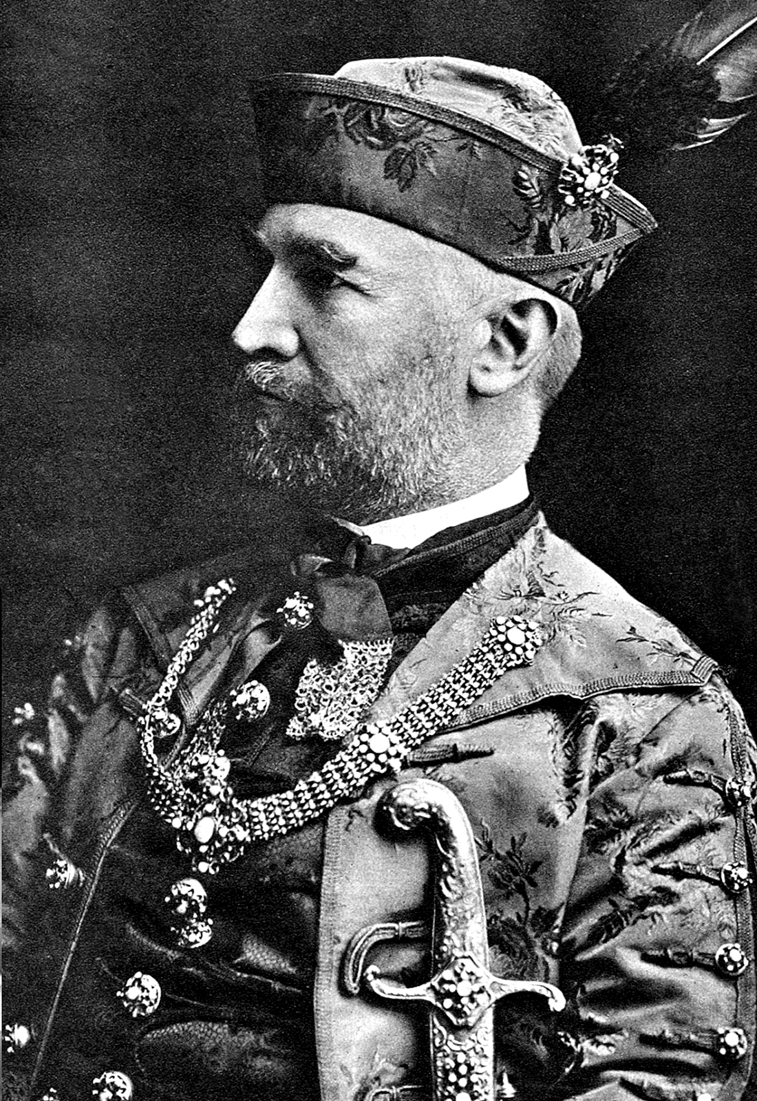 Sándor Simonyi-Semadam, Prime Minister of Hungary in 1920